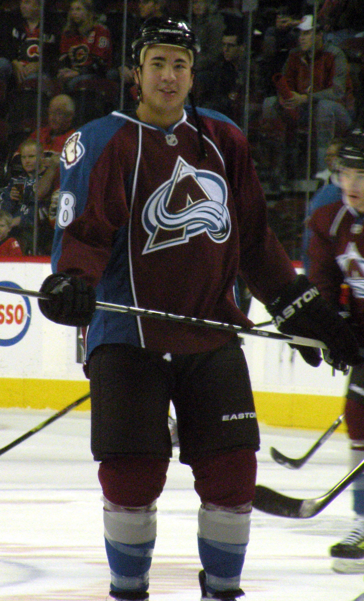 Colorado Avalanche forward Brandon Yip prior to a National Hockey League game against the Calgary Flames.